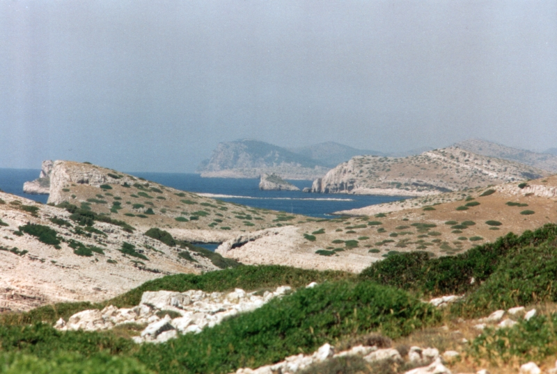 Kornati, Croatia